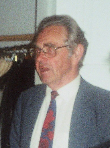 Bertil Fiskesjö (born 1928), Swedish member of parliament for the Centre Party (c). Photo taken at the 85th anniversary of the student magazine Lundagård for which Fiskesjö was editor in 1957.